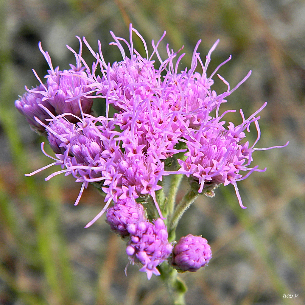 Florida paintbrush plants are now blooming in the pine flatwoods! This one was found at Jonathan Dickinson State Park on a windy day. They are superb plants for insect watching as almost every insect loves them. I'll try and get some close-ups of the tiny flowers if the wind and rain ever let up :-)